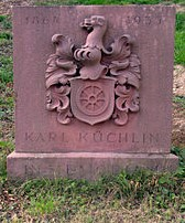 memorial Karl Küchlin, Villa Küchlin, Horben/Germany